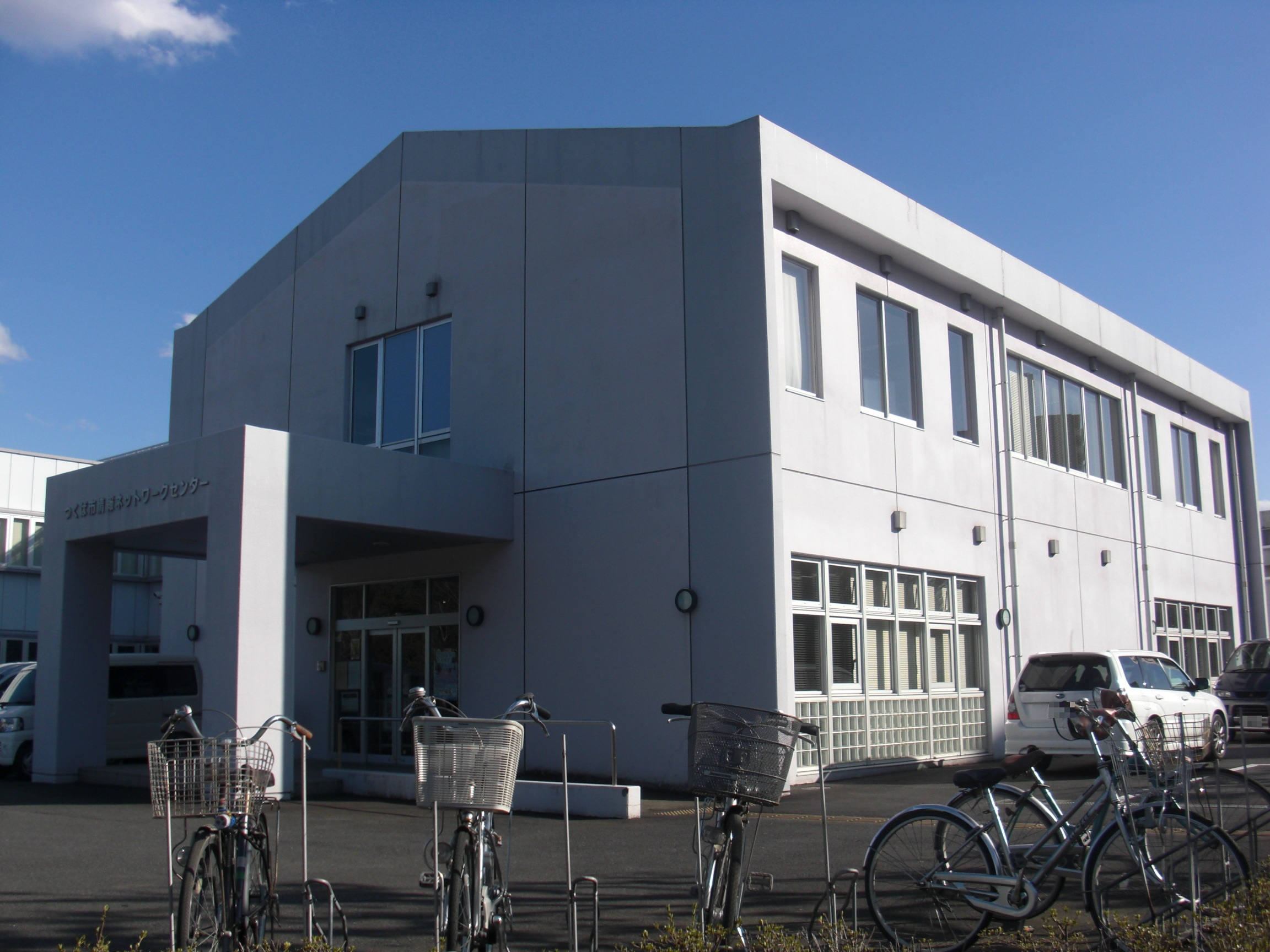 This is one of communal facilities in Tsukuba, Ibaraki, Japan.